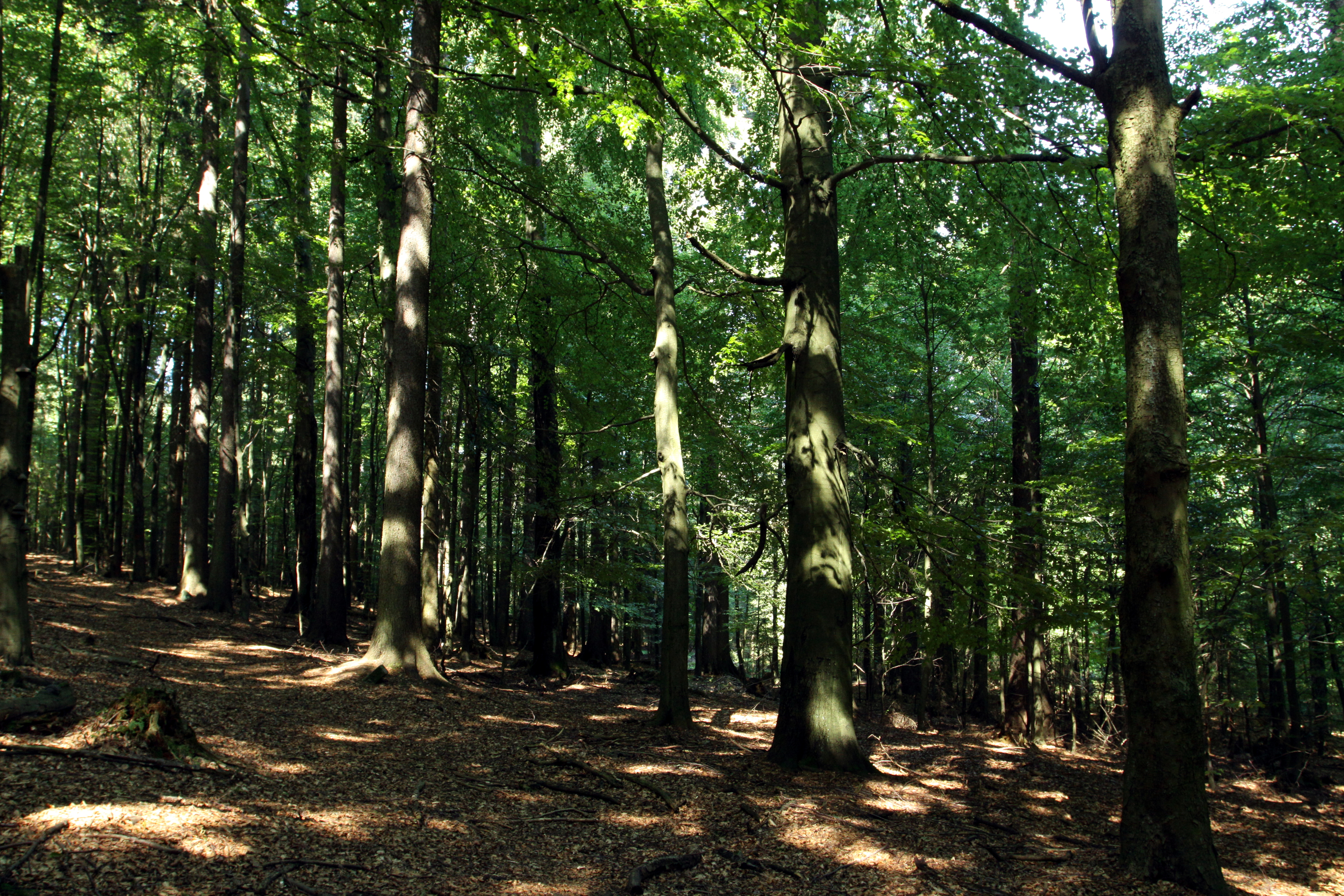 Nature reserve Bystřice near Babylon in Domažlice District, Czech Republic